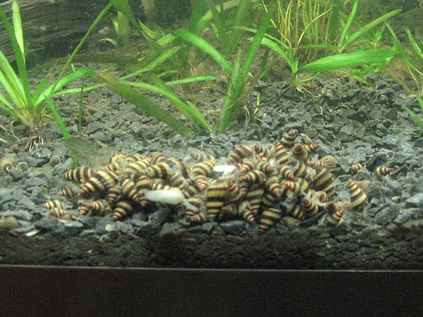 Clea helena